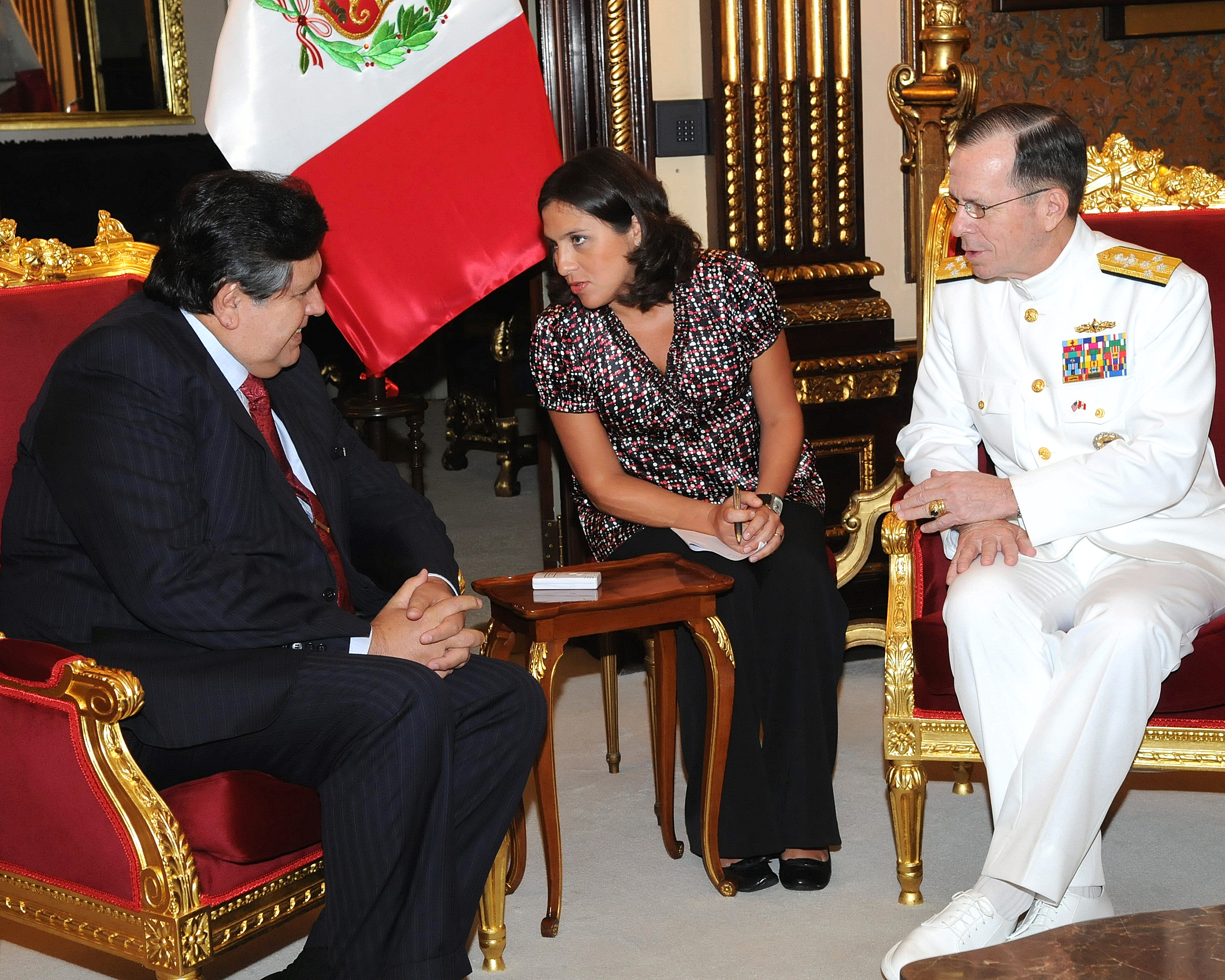 U.S. Navy Adm. Mike Mullen, chairman of the Joint Chiefs of Staff, speaks to Peruvian President Alan Garcia through a translator at the presidential palace in Lima, Peru, March 4, 2009. State Department photo by Andres Camacho